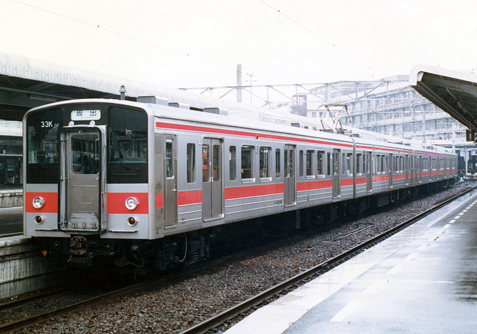 JNR 121 series EMUs at Takamatsu Station in Shikoku, Japan